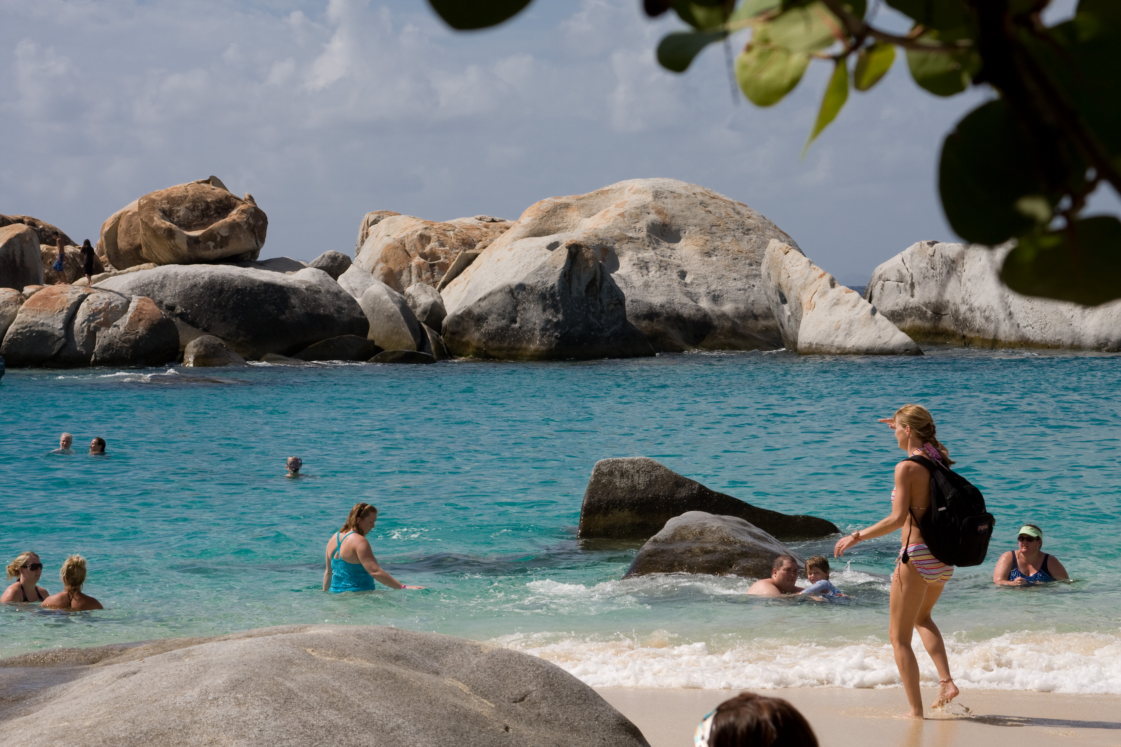 View of the boulders at The Baths in Virgin Gorda, BVI